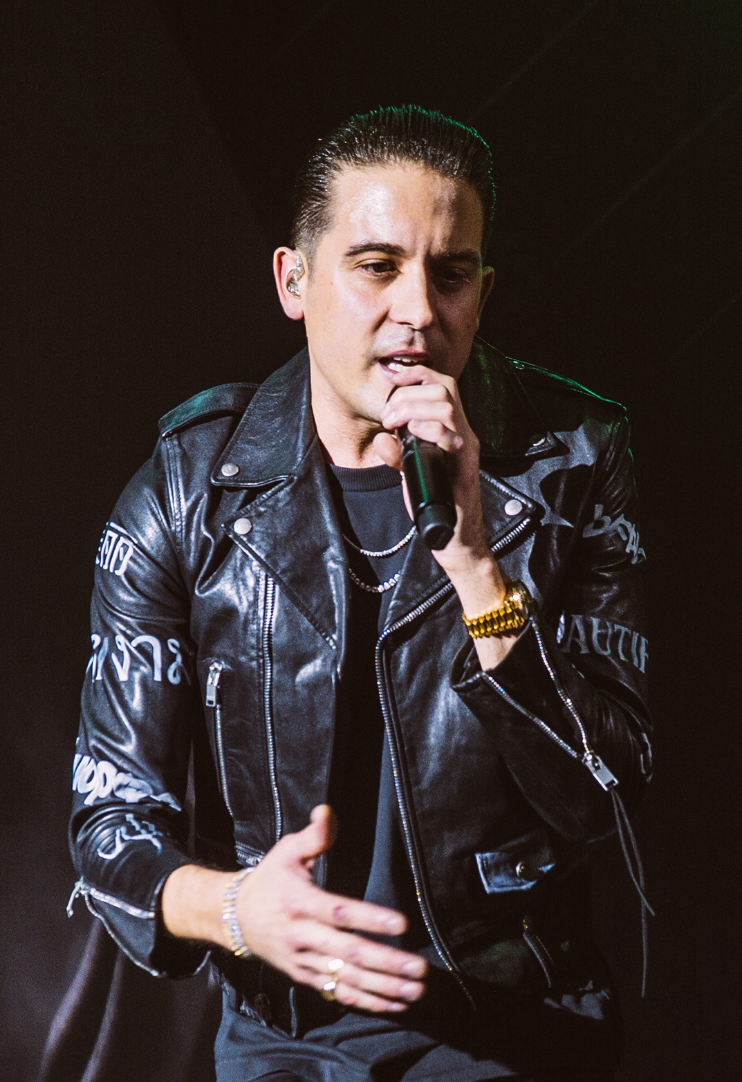 G-EAZY performin at the Beautiful & Damned Tour